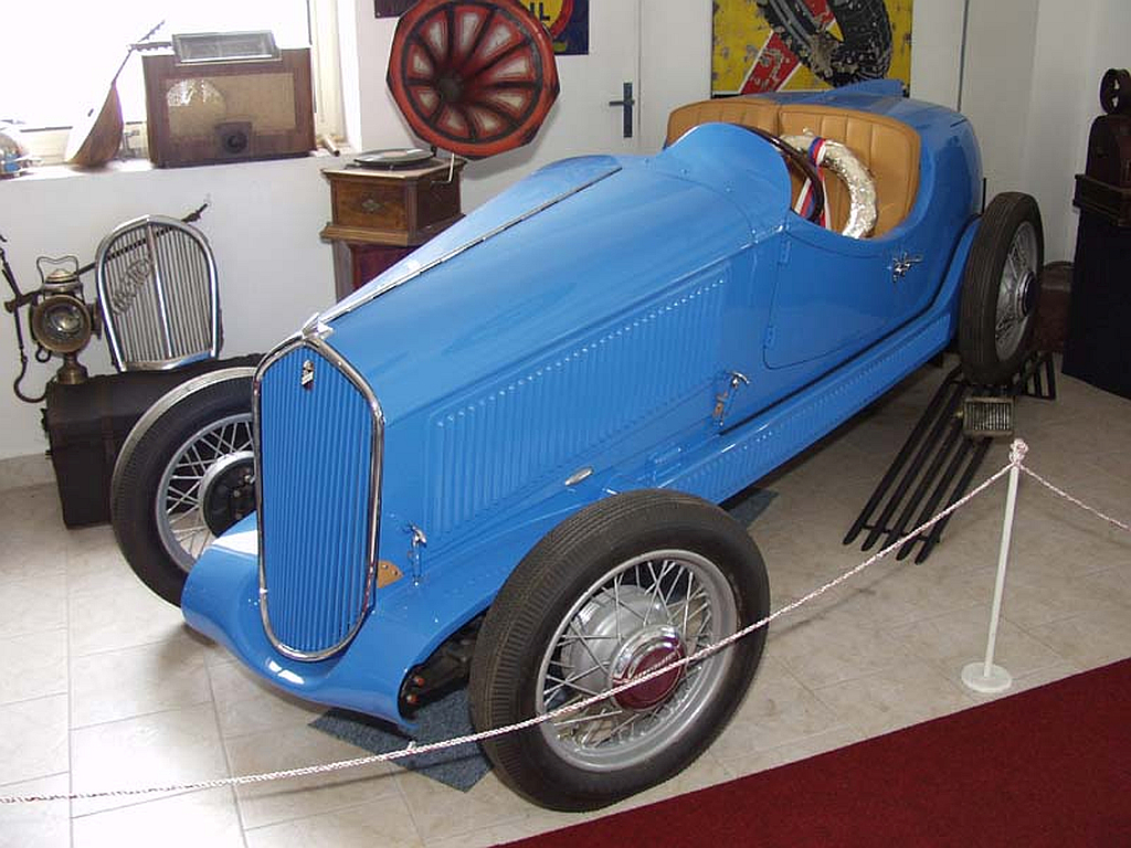 Walter Junior S závodní verze (1933)